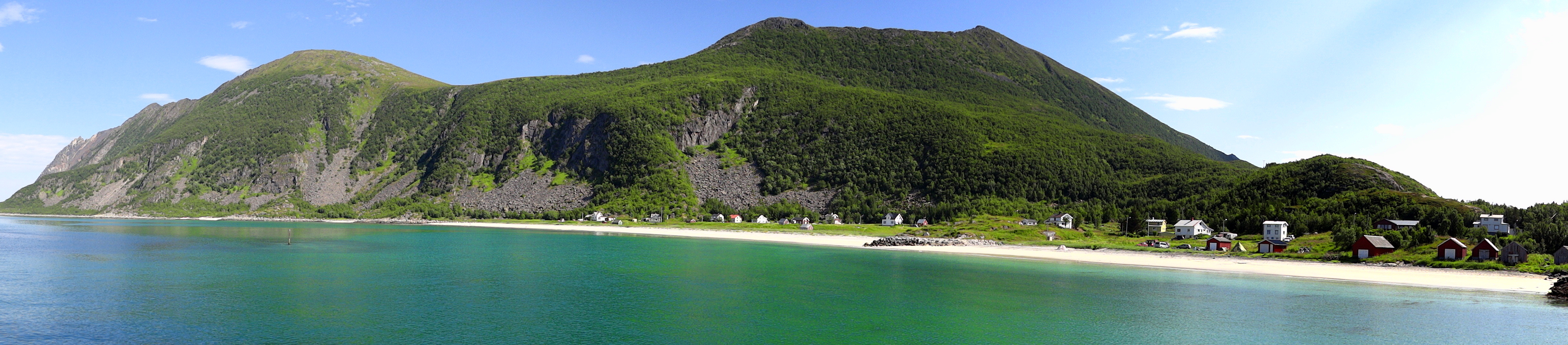 The fishing village of Bøvær, Senja, Norway.